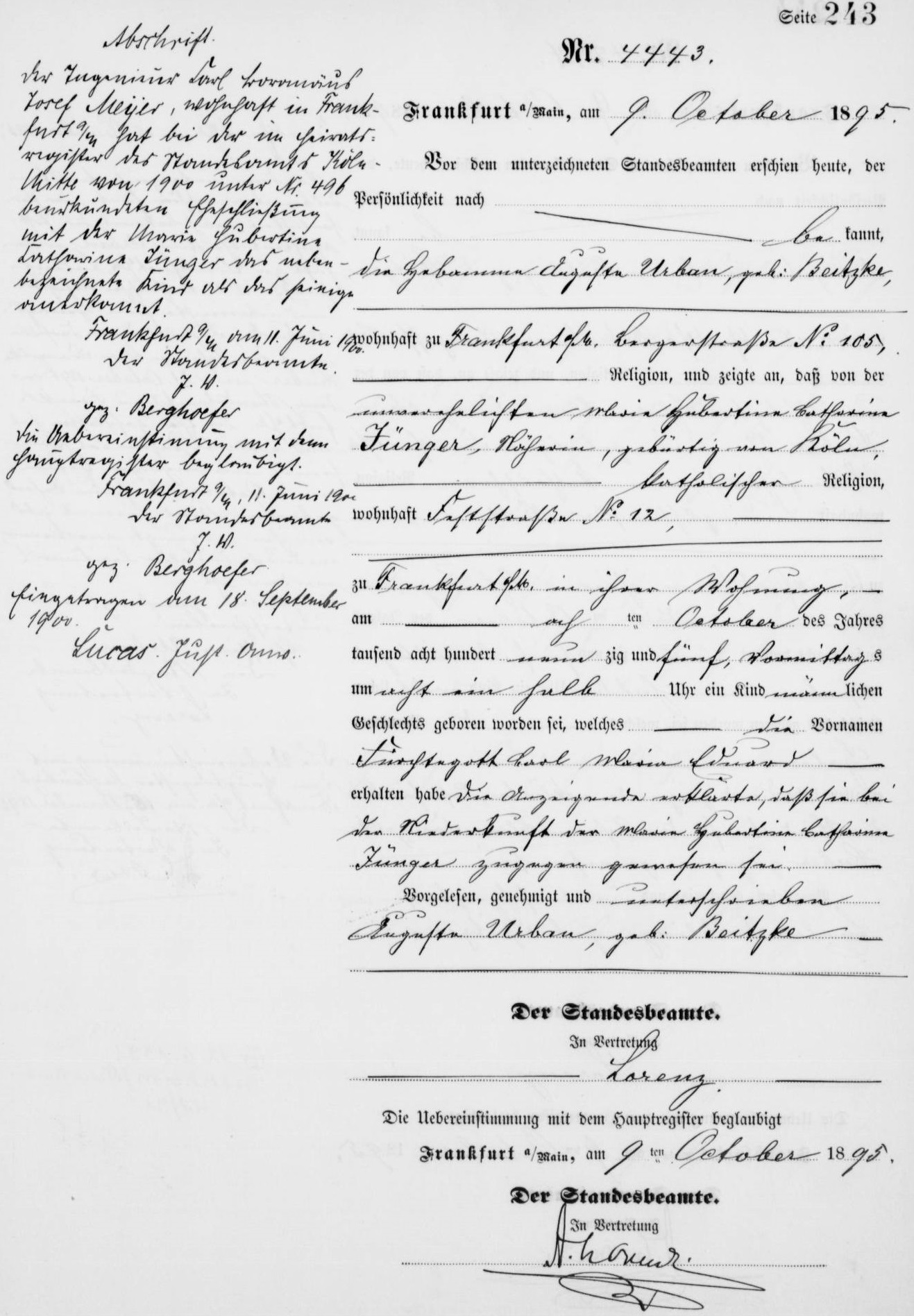 Birth certificate of the lawyer and political agent Eduard Meyer (1896-1931).